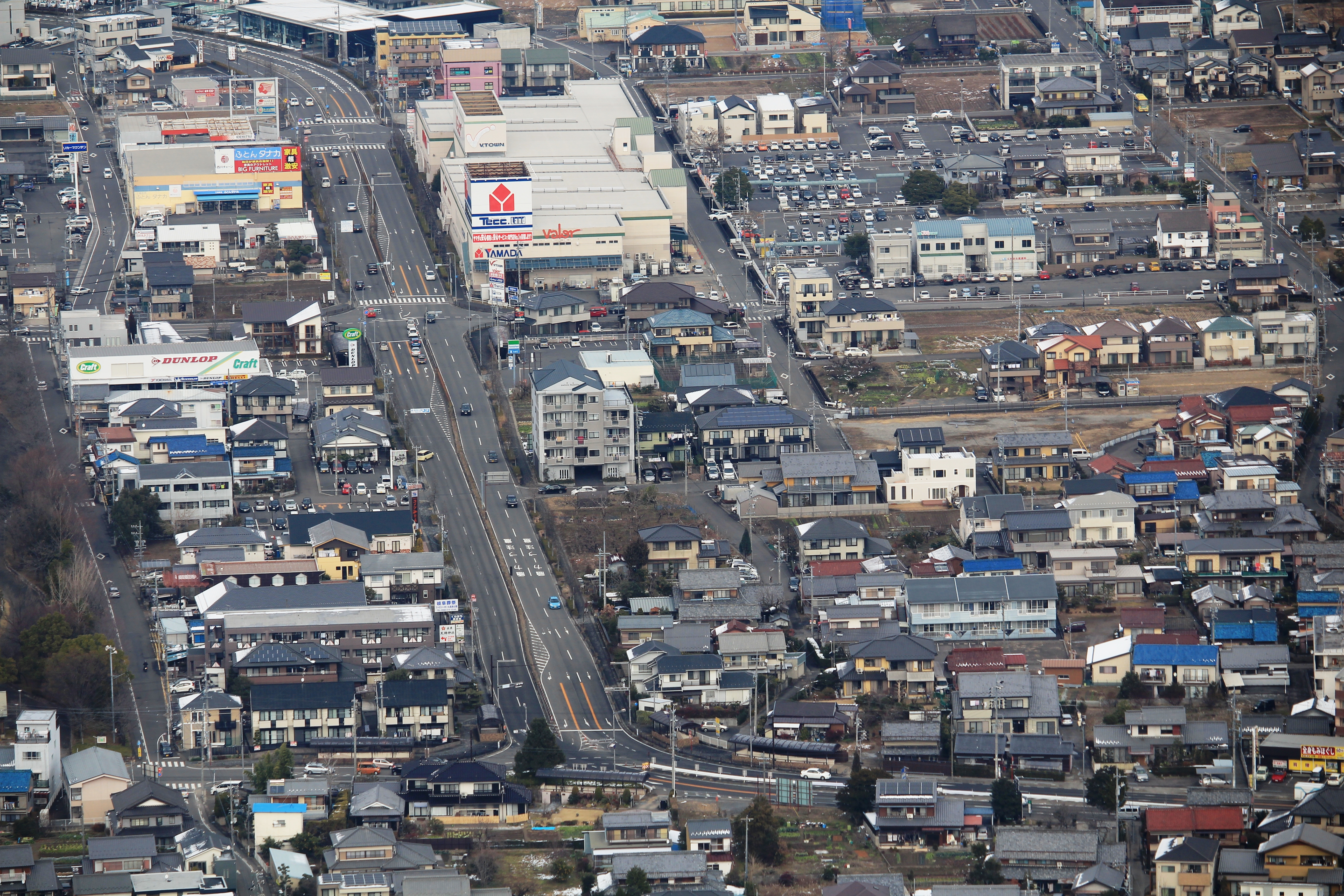 Gifu Prefectural Road Route 77 seen from Mount in Gifu city, Gifu prefecture, Japan.